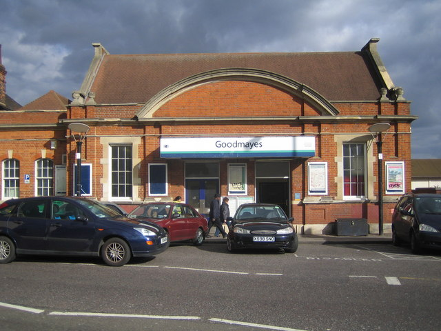 Goodmayes railway station